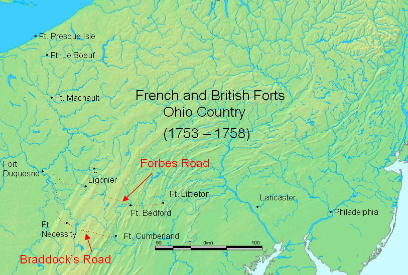 French and British forts built in the Ohio Country from 1753 to 1758. Includes French Forts (New France) Fort Presque Isle, Fort Le Boeuf, Fort Machault and Fort Duquesne. Also, Britsh Forts Fort Littleton, Fort Bedford, Fort Ligonier, Fort Necessity anf Fort Cumberland. Shows positions of Lancaster, Pennsylvania, and Philadelphia, Pennsylvania. Also shows the approximate routes of Braddock's Road and Forbes Road. Positions determined by descriptions found in "The Frontier Forts of Western Pennsylvania," Albert, George Dallas, C. M. Busch, state printer, Harrisburg, 1896, and other sources.